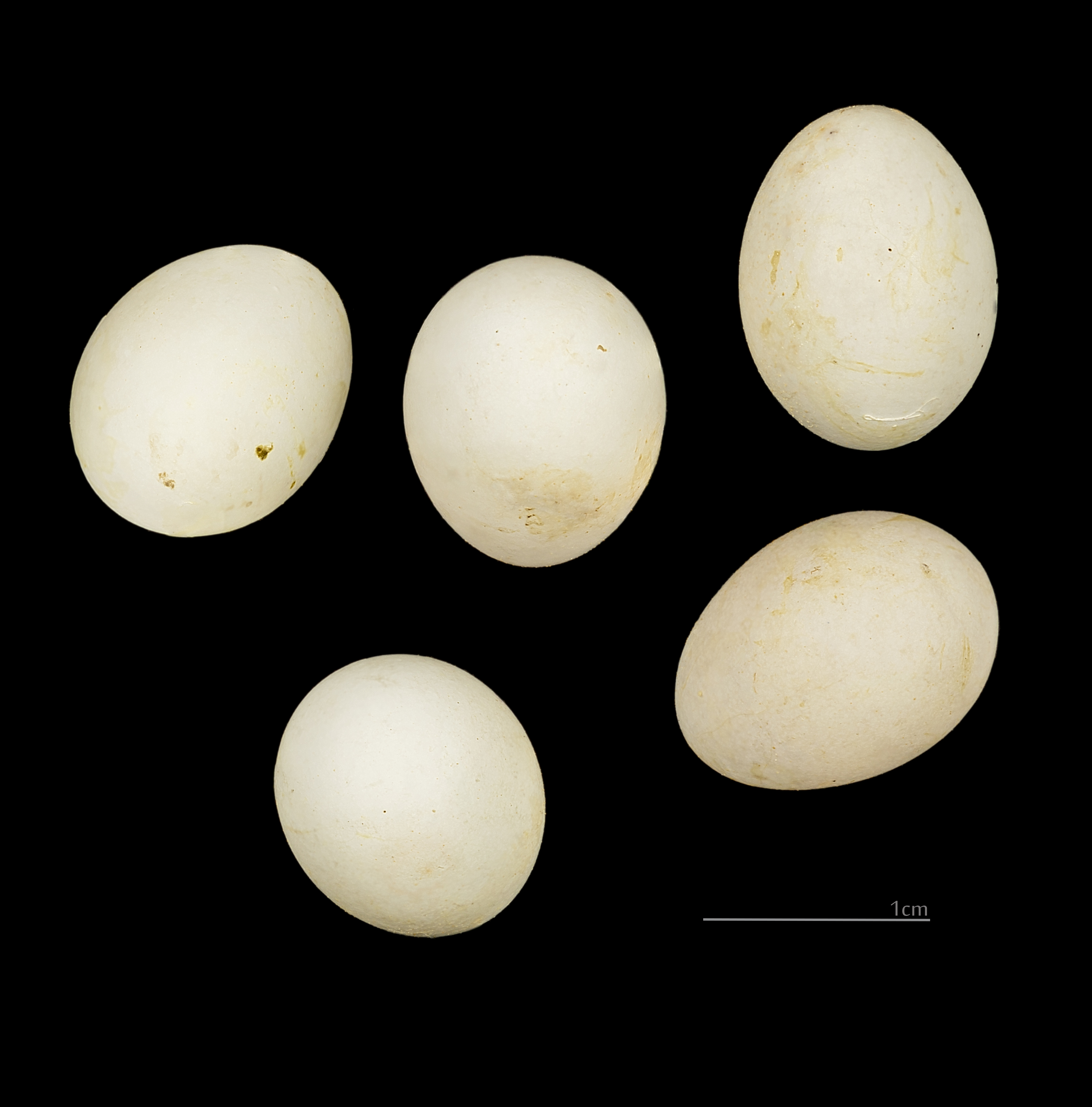 Egg of Malagasy White-eye. Collection of Jacques Perrin de Brichambaut.